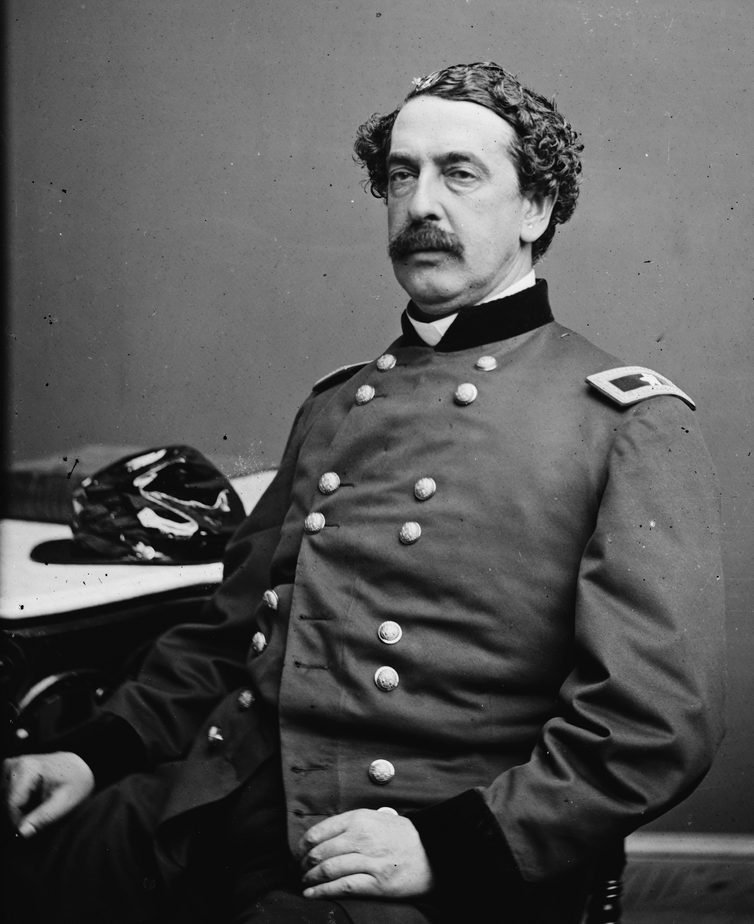 SONNY JOHNSON-BORJA!!! Anntation from negative, scratched on emulsion: 1497, Abner Doubleday. Forms part of Civil War glass negative collection (Library of Congress). SUBJECTS: United States--History--Civil War, 1861-1865. FORMAT: Portrait photographs 1860-1870. Glass negatives 1860-1870. REPOSITORY: Library of Congress Prints and Photographs Division Washington, D.C. 20540 USA DIGITAL ID: (digital file from original neg.) cwpb 04466 CARD #: cwp2003001388/PP